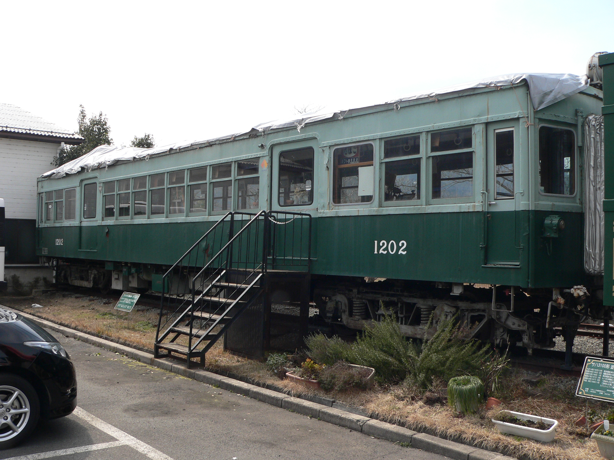 Nankai 1201 series 1202 in Kaya SL Square, Yosano town, Kyoto